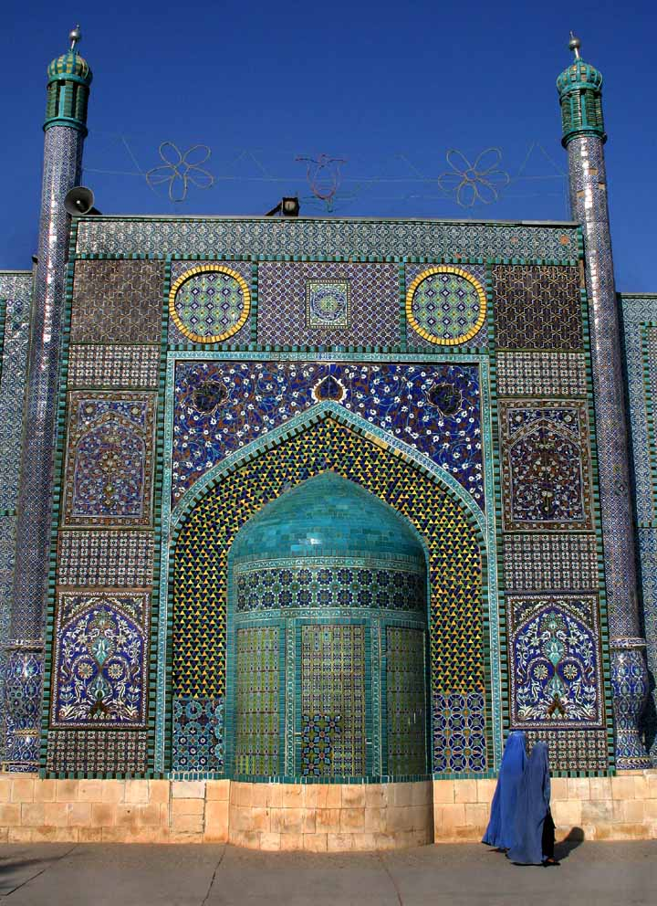 The blue mosque in Mazari Sharif, which is a city in northern Afghanistan.